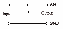 The ultimate transmatch